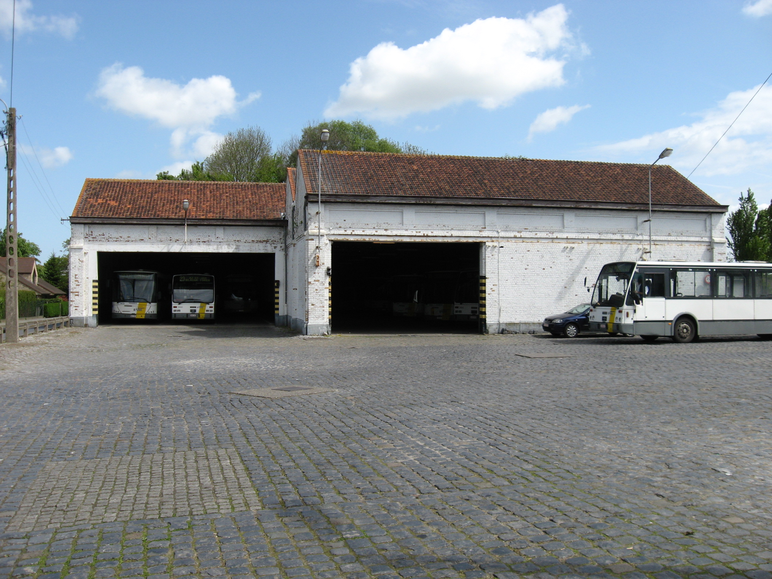 Busdepot "De Lijn" of Diksmuide. Used to be a vicinal railway depot (steam), later converted for bus use. Is next to the railwayline and station of Diksmuide.